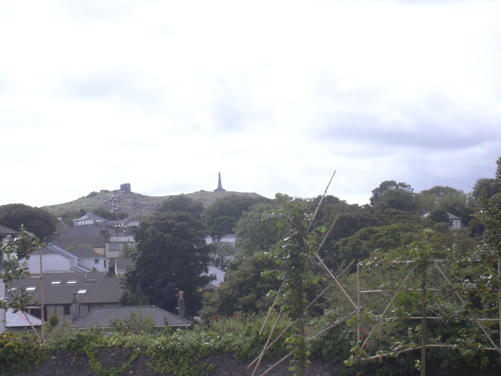 Carn Brea from Redruth New Cut car park